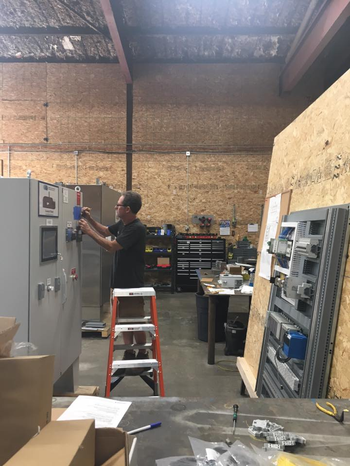 Electrical engineering